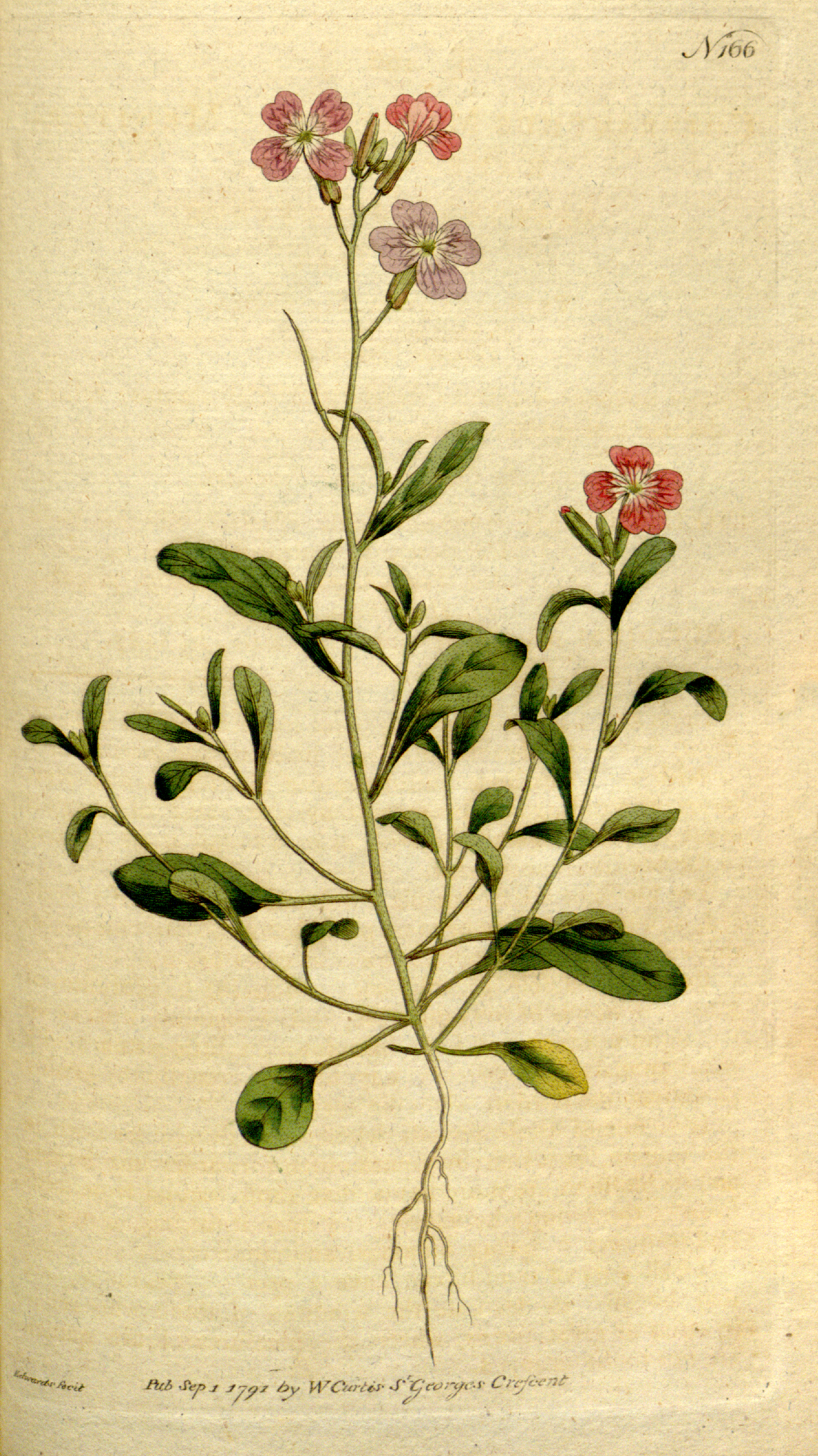 This is a plate from The Botanical Magazine, Volume 5.